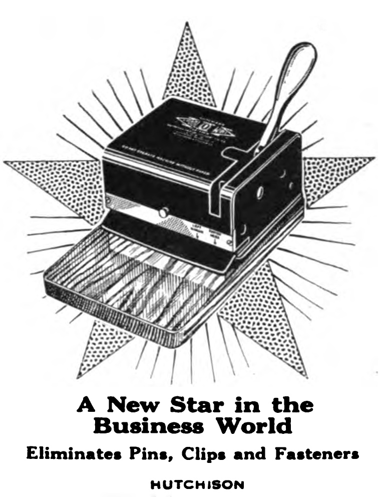 "A New Star in the Business World" says a 1920 advertisement for the Spool-O-Wire fastener machine. It was invented in New York by Miller Reese Hutchison (1876–1944.